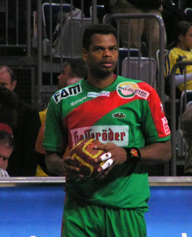 Joel Abati, on February 21st 2007 in Mannheim SAP Arena (Germany), prior the game SG Kronau-Östringen - SC Magdeburg (32:27).